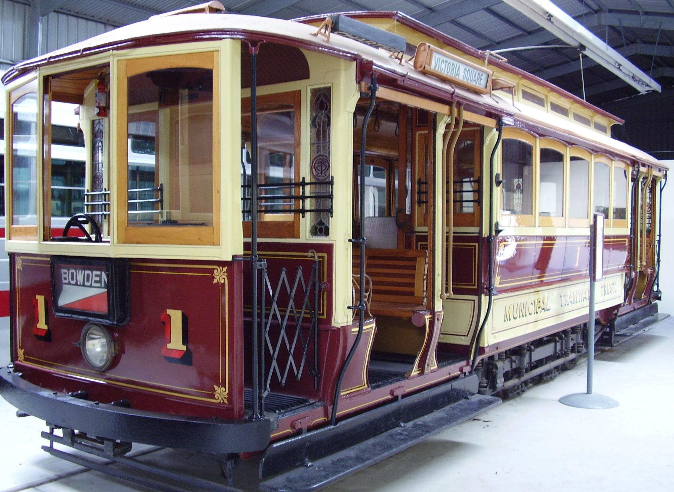 First electric tram in Adelaide – on display at the St Kilda, South Australia tram museum.